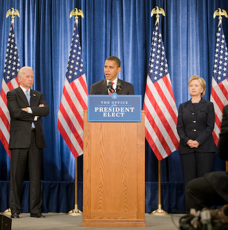 Photograph of Barack Obama (center), Joe Biden (left) and Hilary Clinton (right) during Office of the President speech.